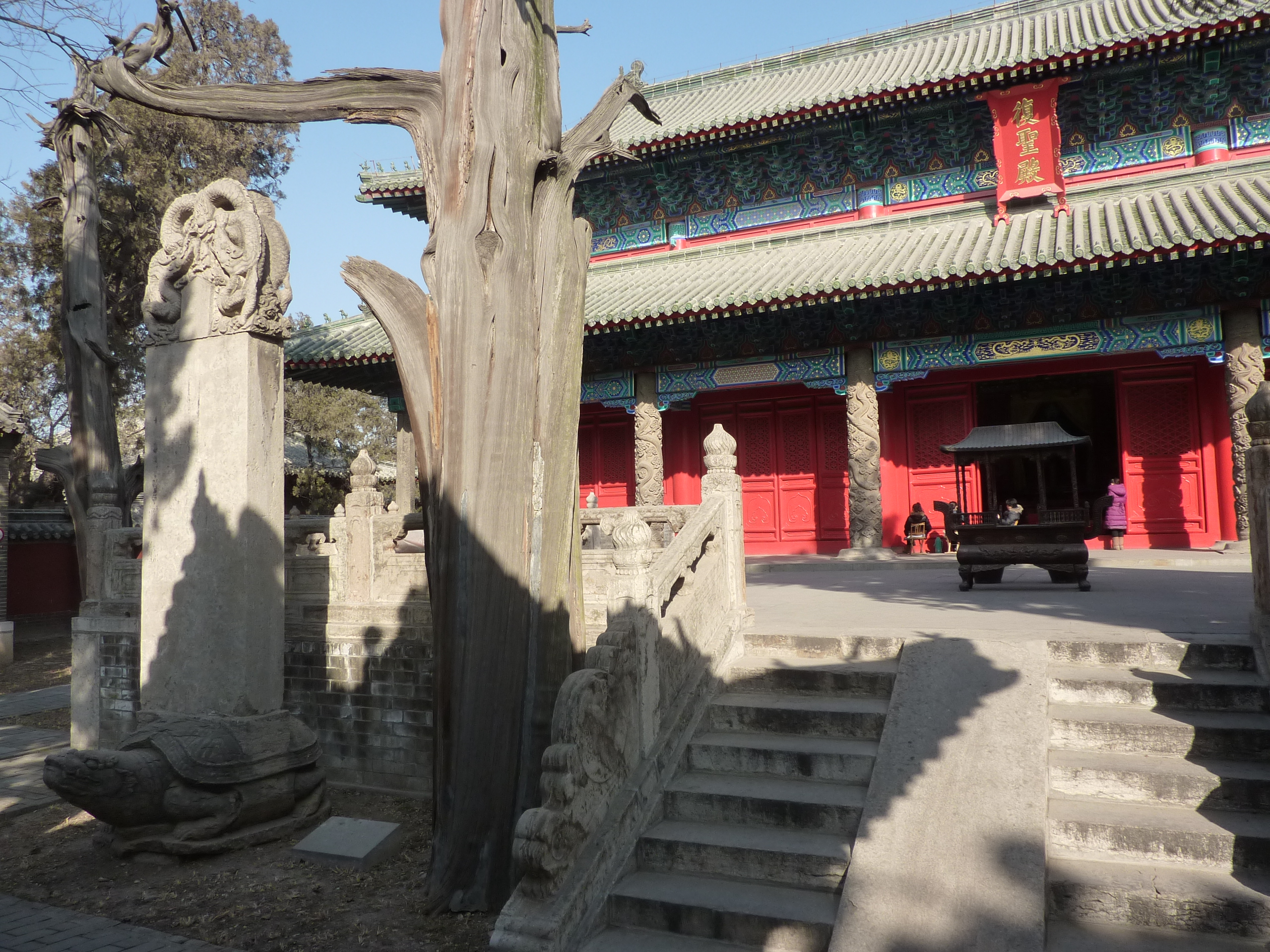 Hall of Fusheng (Fusheng Dian), the main sanctuary of the Temple of Yan Hui (Yan Miao). Fusheng, or the Continuator of the Sage, is the usual honarary title of Yan Hui. The hall faces the northern courtyard of the temple. In front of the hall, to the west of the main entry, one can see a stele posthumously granting Yan Hui the title of Fusheng (the Continuator of the Sage), Duke of Yanguo. It is dated Year 2 of Zhishun era (AD 1331).